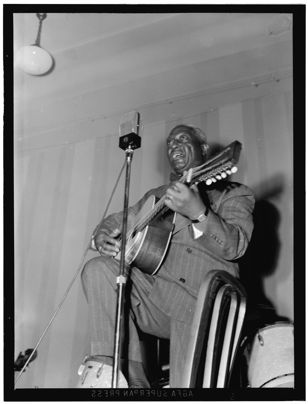 Gottlieb, William P., 1917-, photographer. [Portrait of Leadbelly, National Press Club, Washington, D.C., between 1938 and 1948] 1 negative : b&w ; 3 1/4 x 4 1/4 in. Notes: Gottlieb Collection Assignment No. 201 Purchase William P. Gottlieb Forms part of: William P. Gottlieb Collection (Library of Congress). Subjects: Leadbelly, 1885-1949 Guitarists--1930-1950. Singers--1930-1950. National Press Club Format: Portrait photographs--1930-1950. Film negatives--1930-1950. Rights Info: Mr. Gottlieb has dedicated these works to the public domain, but rights of privacy and publicity may apply. Repository: (negative) Library of Congress, Prints & Photographs Division, Washington D.C. 20540 USA, (contact print) Library of Congress, Prints & Photographs Division, Washington D.C. 20540 USA, Part Of: William P. Gottlieb Collection (DLC) 99-401005 General information about the Gottlieb Collection is available at Persistent URL: Call Number: LC-GLB23- 1356 This work is from the William P. Gottlieb collection at the Library of Congress. Rights and restrictions.In accordance with the wishes of William Gottlieb, the photographs in this collection entered into the public domain on February 16, 2010.